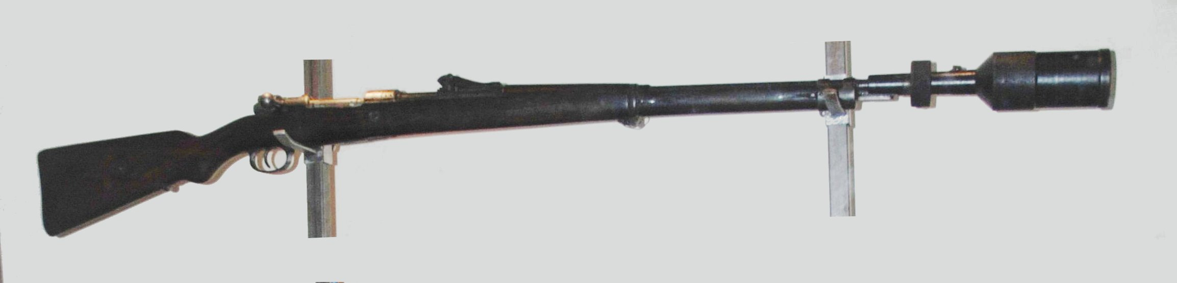 German rifle Mauser M1898 with rifle grenade laucher; the Verdun Memorial, Fleury-devant-Douaumont, France